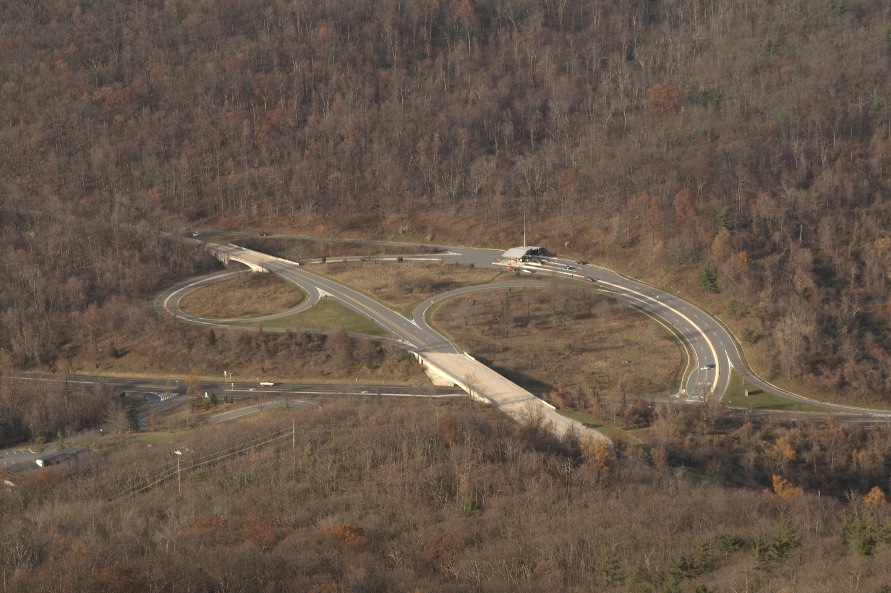 Intersection of Skyline Drive (above) with U.S. Route 211 (below) as seen from the Mary's Rock